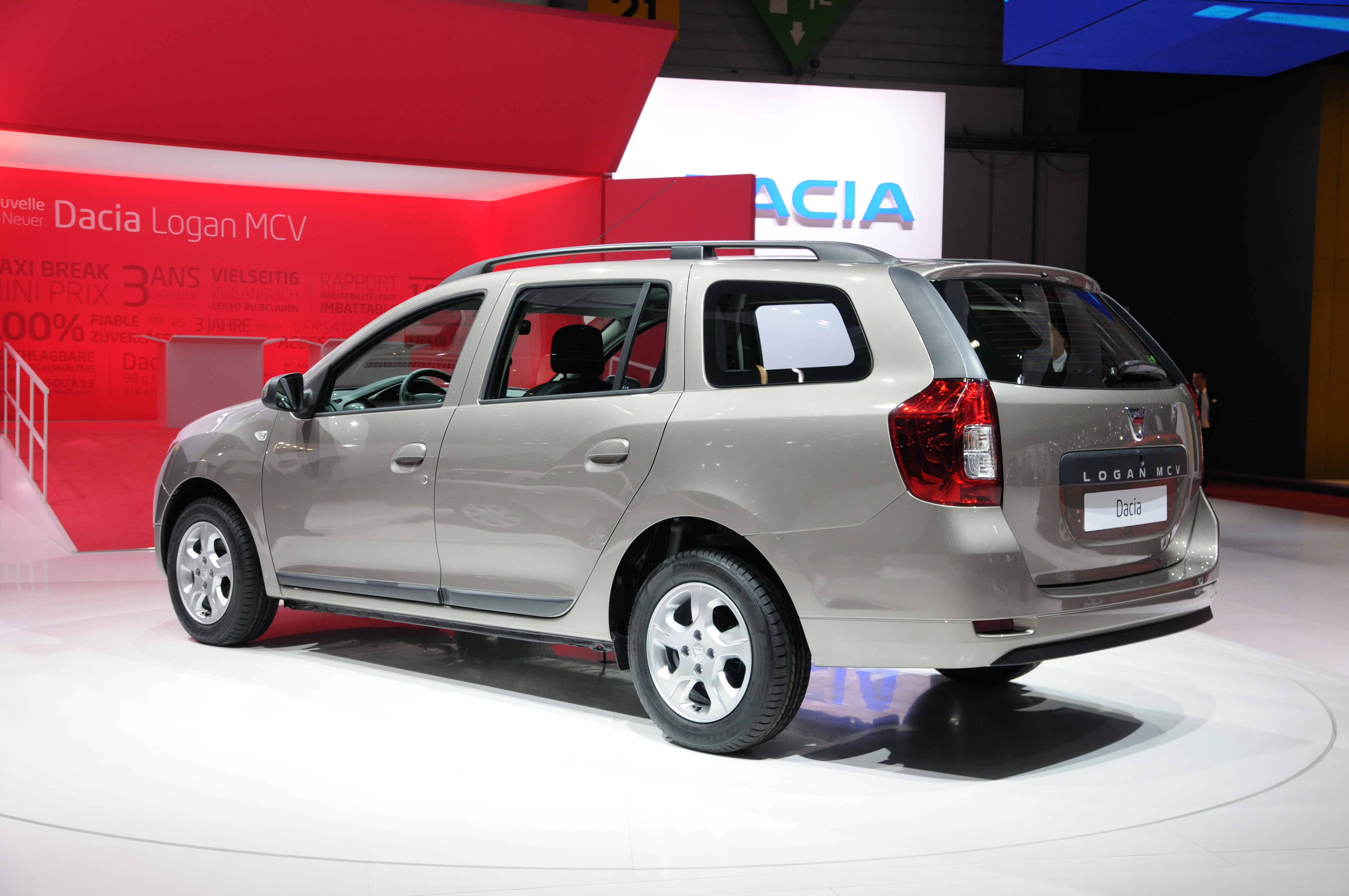 Geneva Motor Show 2013 (photos taken on the first press day)